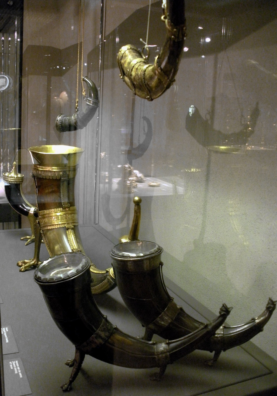 Various reliquaries made of horn with silver or gilded copper furnishings (14th-15th c). Bottom: two aurochs horns. Treasury of Saint Servatius Basilica, Maastricht, Netherlands.